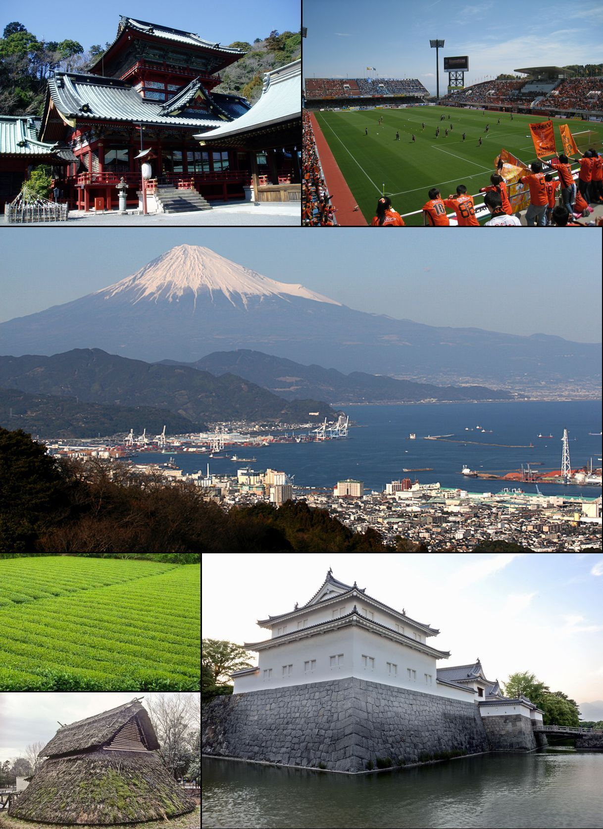 Shizuoka City, JAPAN From top left:Shizuoka Sengen Shrine, Nihondaira Stadium, Mt Fuji view from Nihondaira, Tea plantation, Toro Site, Sunpu Castle